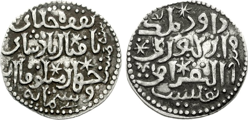 The legend citing "Struck by the Georgian King David in the name of his overlord Möngke Khan by the power of Heaven” in Persian. (Dated 1253) Original description: ISLAMIC, Mongols. Great Khans. Möngke. AH 649-658 / AD 1251-1260. AR Dirhem (2.82 g, 6h). Tiflis mint. Struck under Davit VII Ulu, King of Gerogia; Dated AH 650 (AD 1252/3). Legend citing Möngke as overlord in three lines across field; formula “by the power of Heaven” above / Name and title of Davit in three lines across field; mint below. Nyamaa, p. 136; Kapanadze 86; Album -. VF, some deposits.